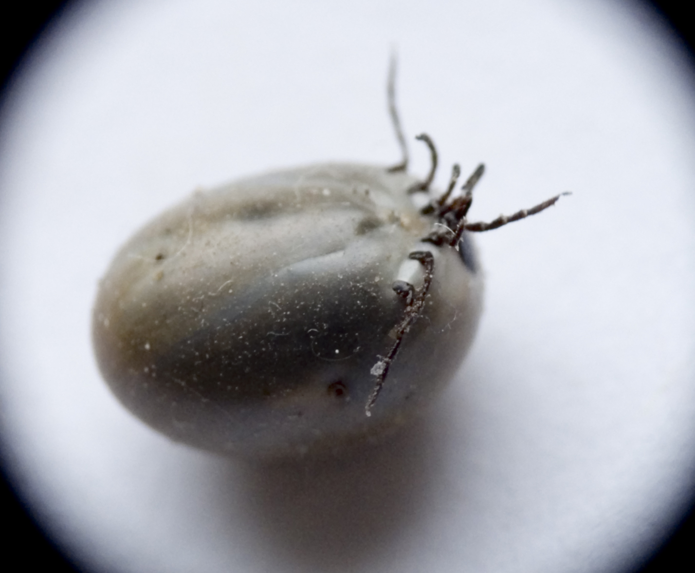 Swollen tick, Ixodes ricinus